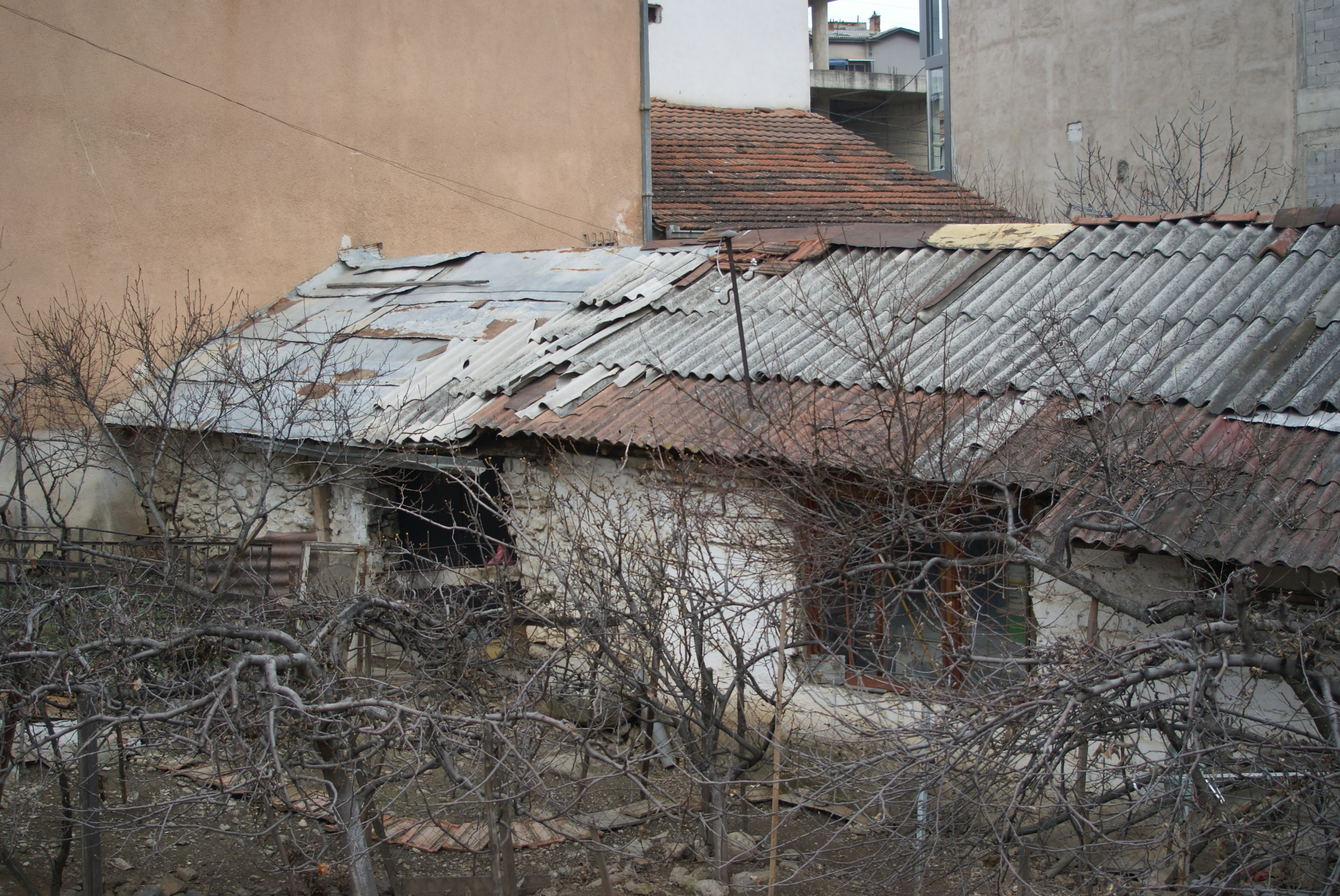 Mulliri